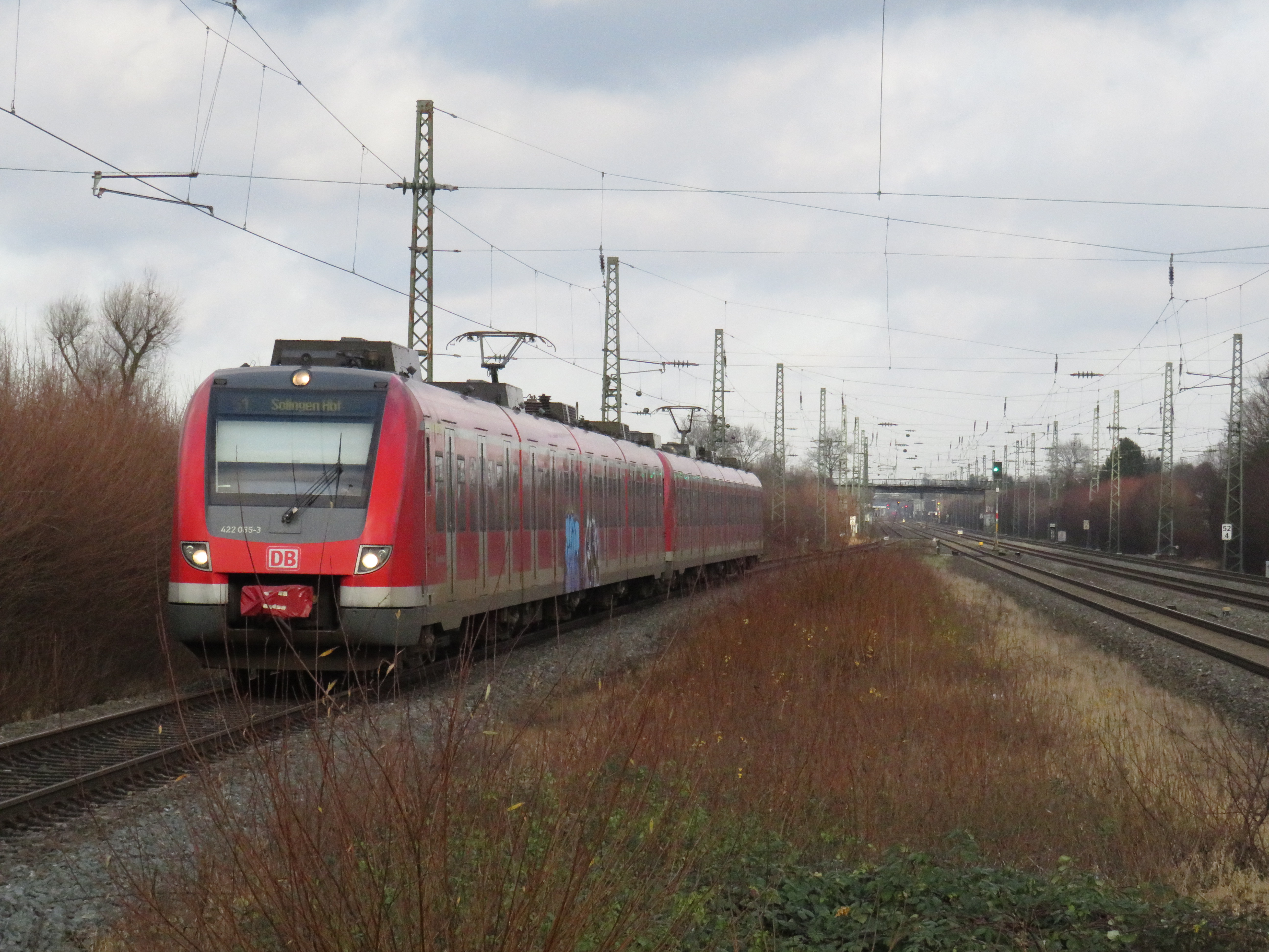 A typical S-Bahn Rhein-Ruhr train, Class 422, in Angermund station